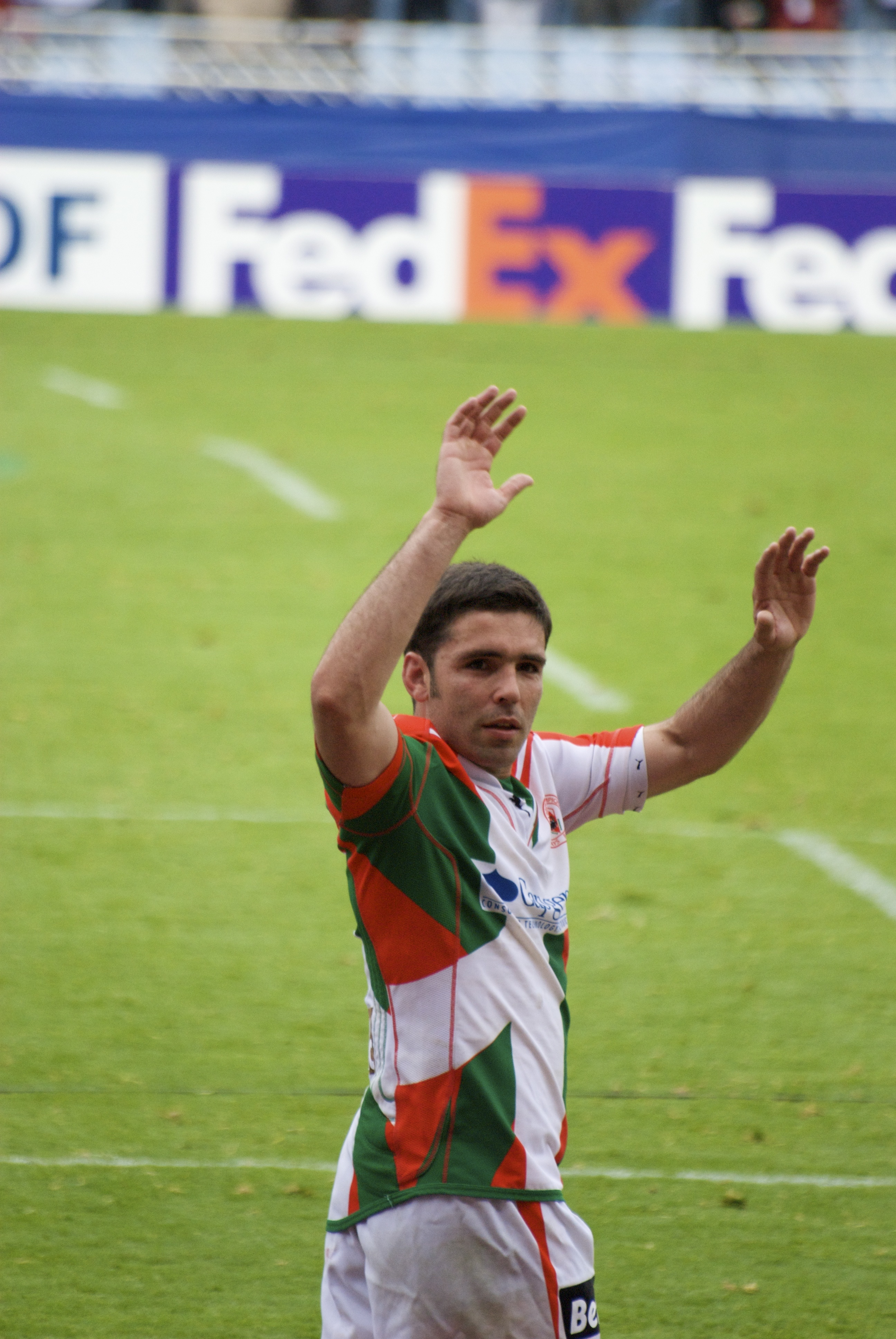 Dimitri Yachvili during the semi final of the H-cup between Biarritz olympique and Munster on the 2nd of may 2010.